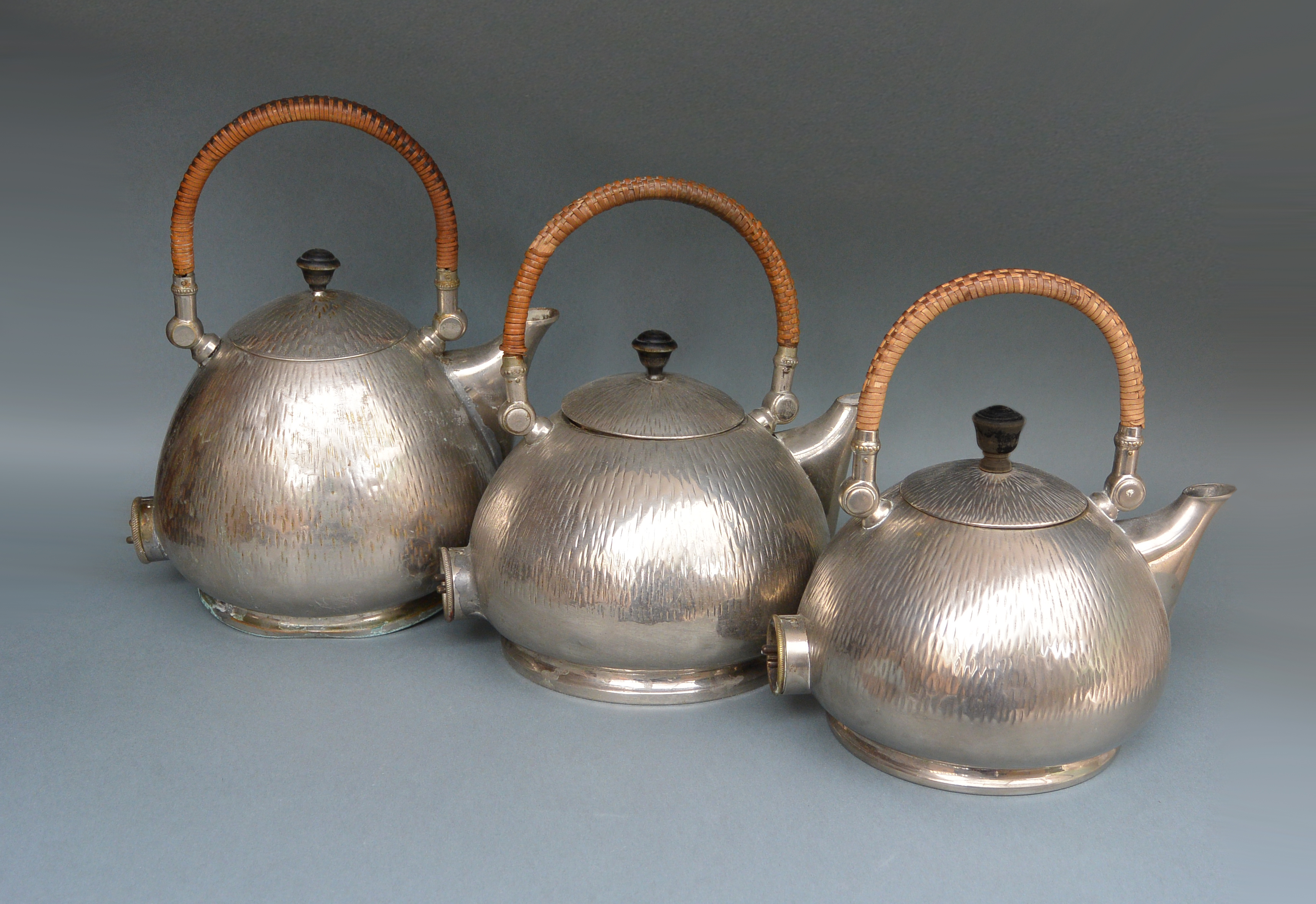 Three versions of the Behrens' water kettle: 1.25L 1.0L and 0.75L